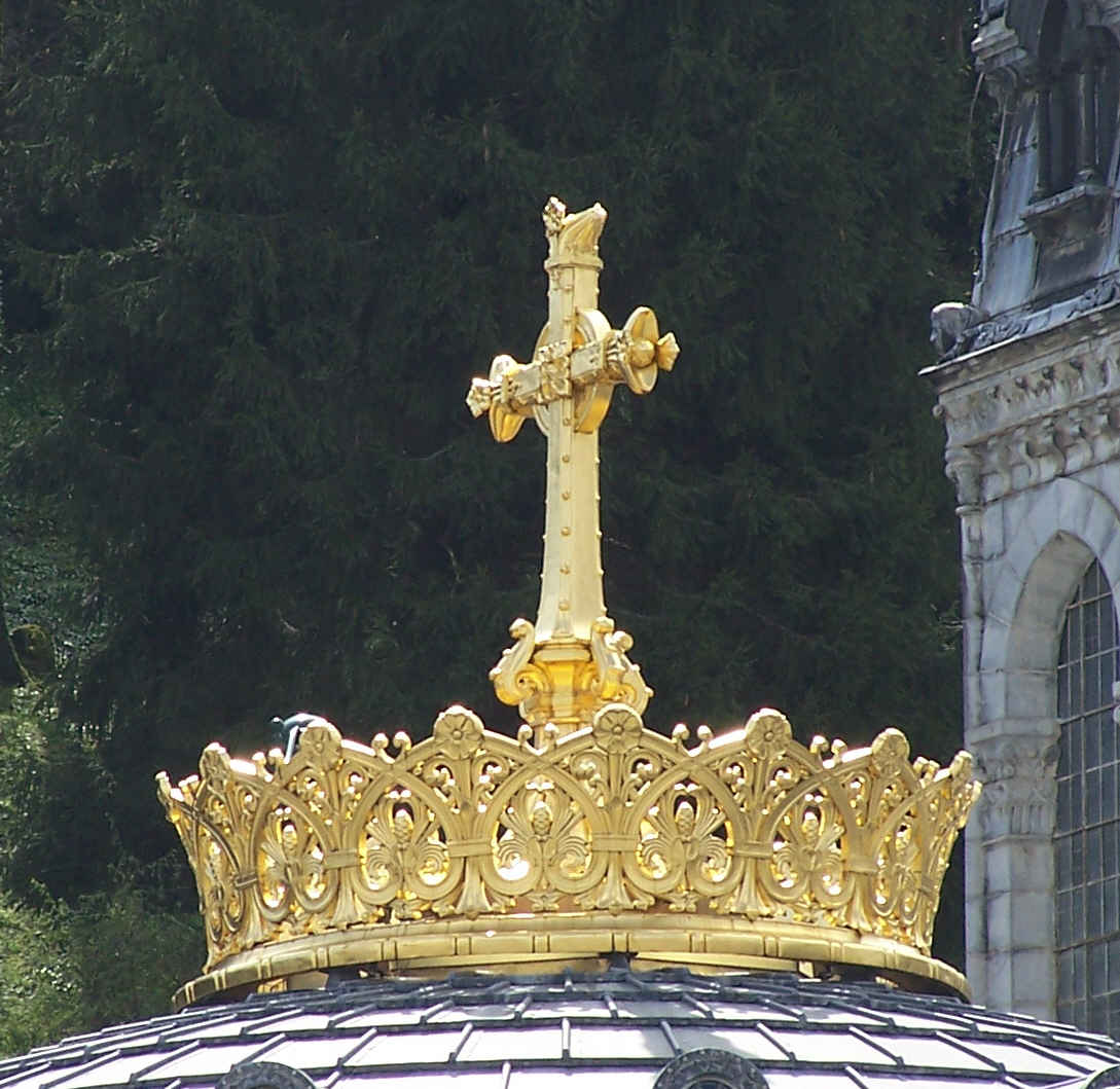 The gilded crown and cross surmounting the exterior of the dome of the Rosary Basilica in the Sanctuary of Our Lady of Lourdes, France. Kodak DX6490 digital camera.